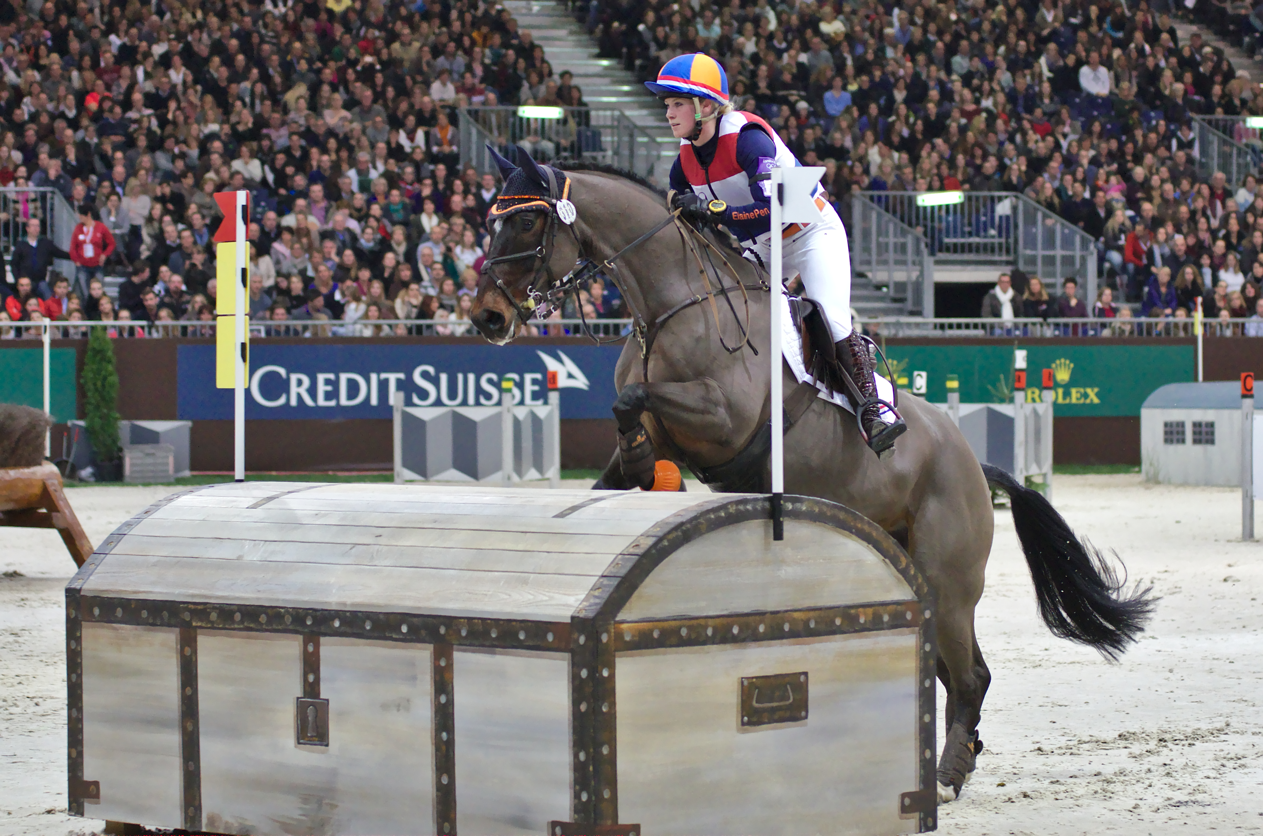 54eme CHI de Genève - 20141213 - Indoor Cross Country - Elaine Pen et Dostowjeski